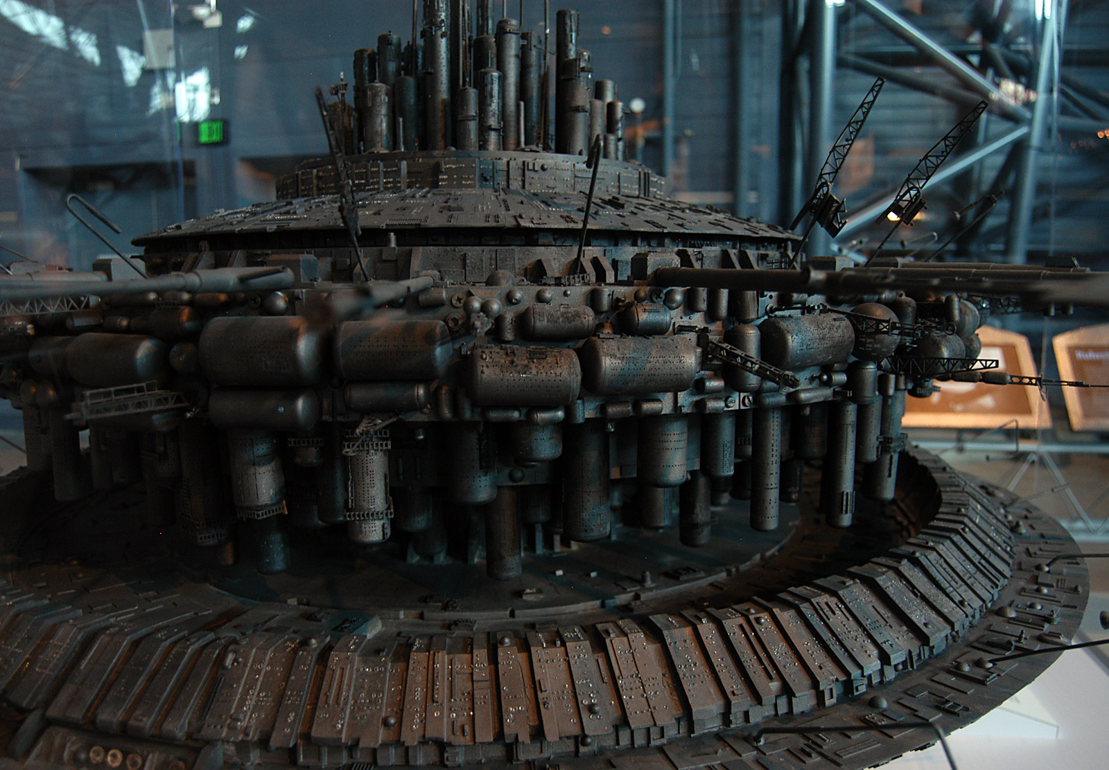 Model in wood, plastic and metal of the Mother Ship spacecraft used in the filming of the movie Close Encounters of the Third Kind (1977). Steven F. Udvar-Hazy Center, Smithsonian's National Air and Space Museum, Washington, D.C. source “The ship was conceived by Steven Spielberg, the film's director and screenwriter. It was made by a team headed by Gregory Jein, using model train parts and other kits. When filmed with special photographic and lighting effects, the model appears to be a huge, hovering craft. Rotating, colored lights underneath the ship added to its effects. Looking closely at the model, one can find tiny hidden smaller models which are not seen when the Mother Ship appears in the film. These models were added by the model makers as internal "jokes". They include a Volkswagen bus, a submarine, the R2-D2 android, a U.S. mailbox, an aircraft, and a small cemetery plot.”